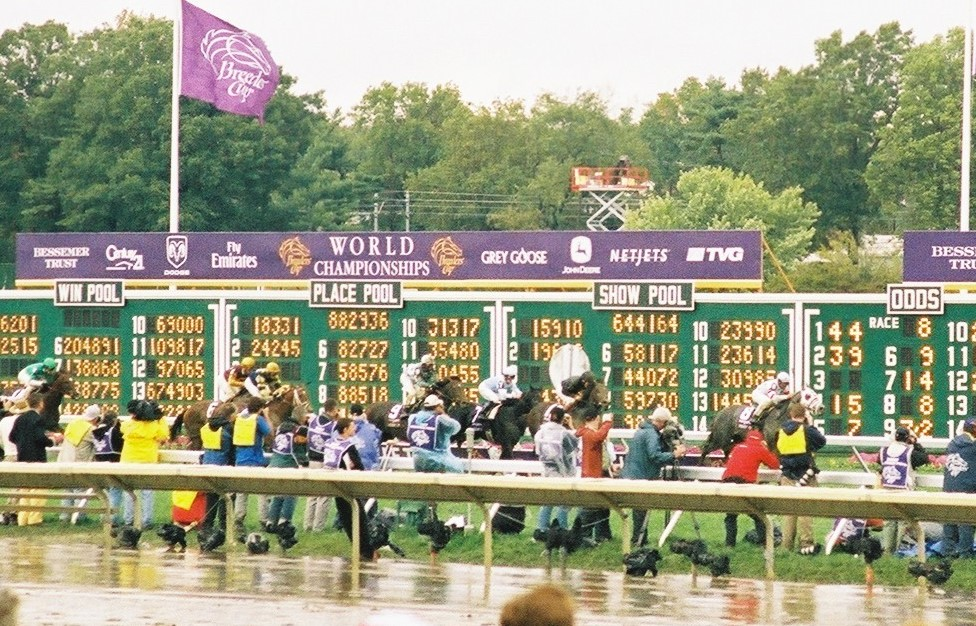 Kip Deville wins the 2007 Breeders Cup Mile at Monmouth Park